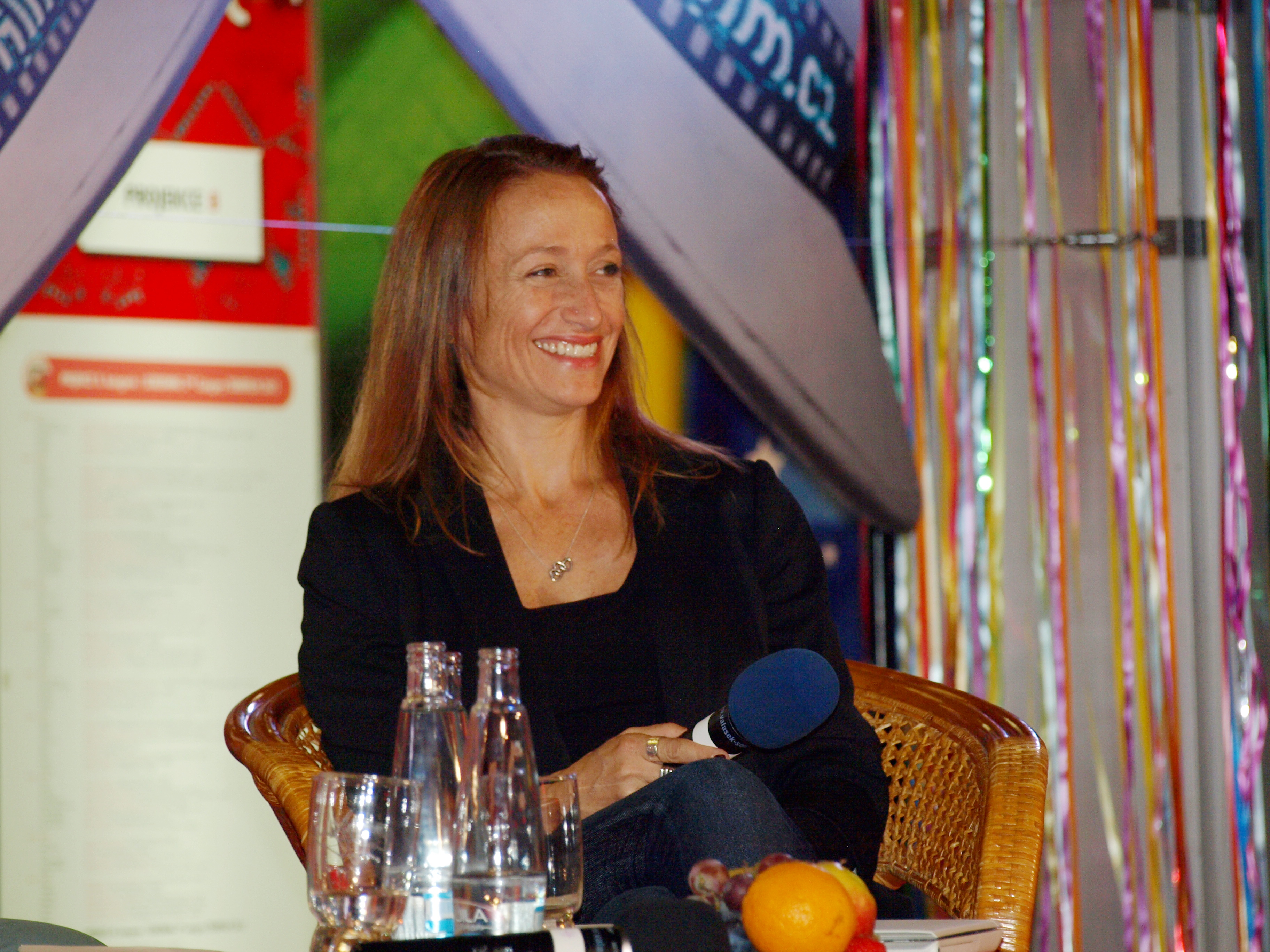 Céline Cousteau Tourfilm 2013